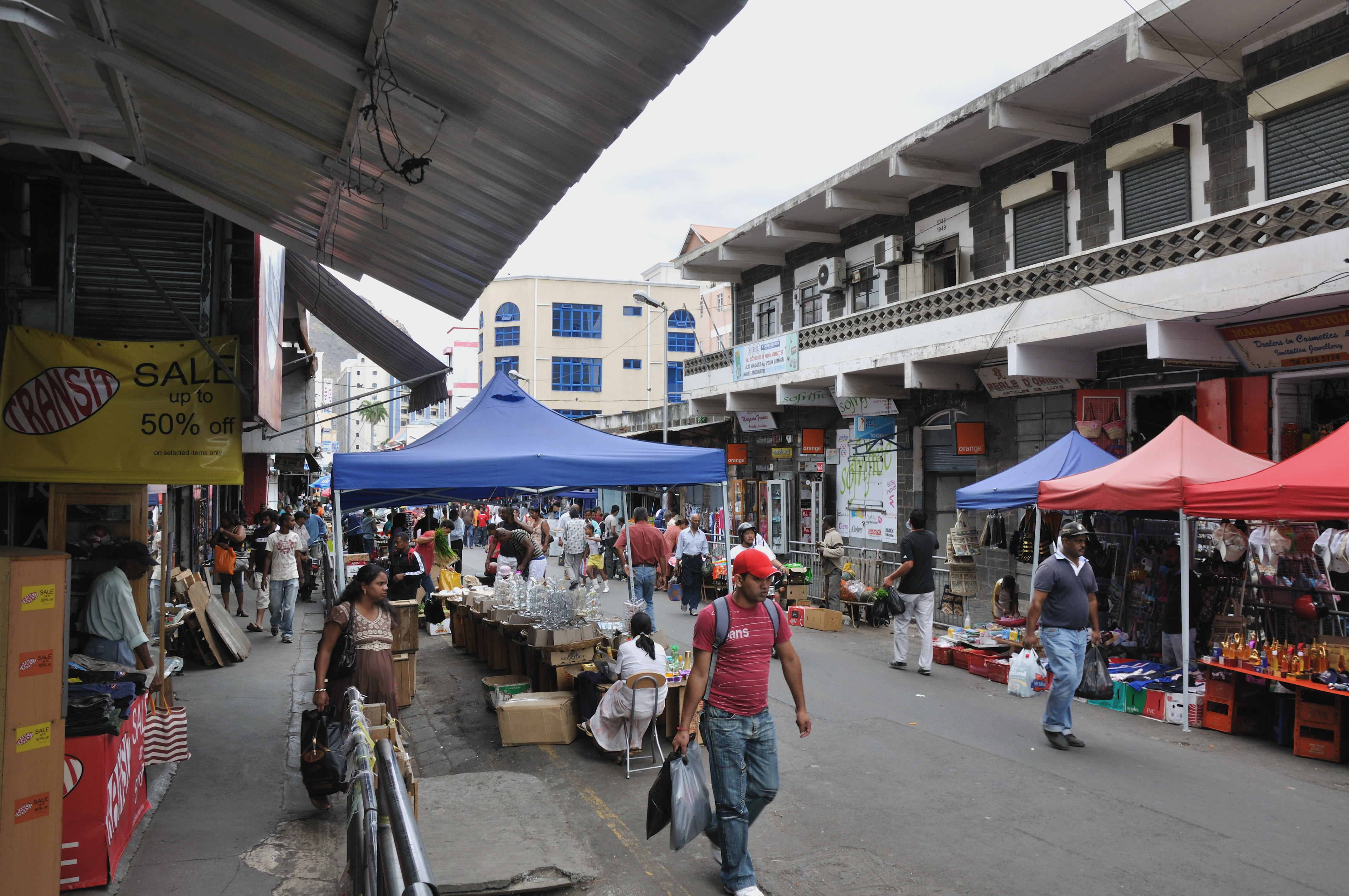 Mauritius, Market in Port Louis